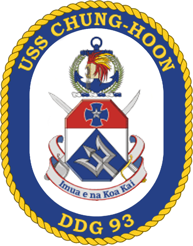 Emblem of the USS Chung Hoon (DDG-93)